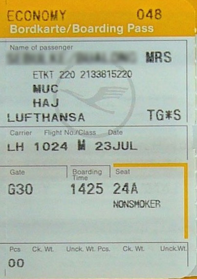 Lufthansa boarding card.